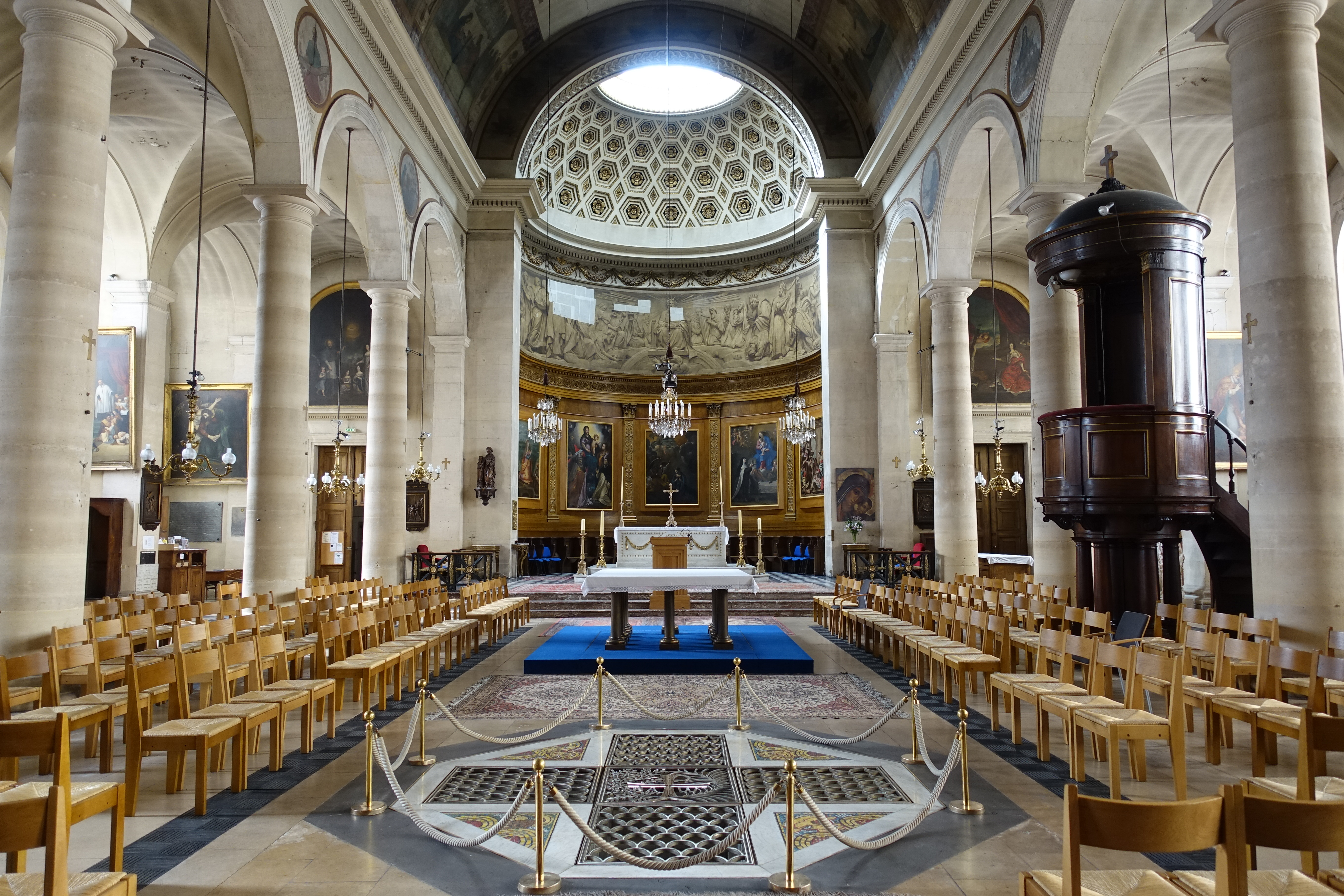 Notre-Dame-de-Bonne-Nouvelle, located at 25 Rue de la Lune, in the 2nd arrondissement of Paris and is a Catholic parish church built between 1823 and 1830. It is dedicated to Notre-Dame de Bonne-Nouvelle, referring to the Annunciation.